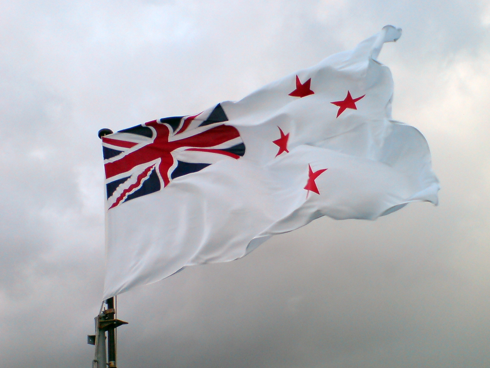 The RNZN ensign of the HMNZ Te Kaha flying in the winter wind. Stern of ship.